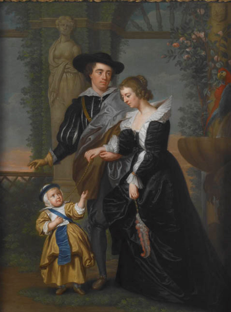 Charles Churchill with wife Mary (sometimes called Maria) with their son 1750